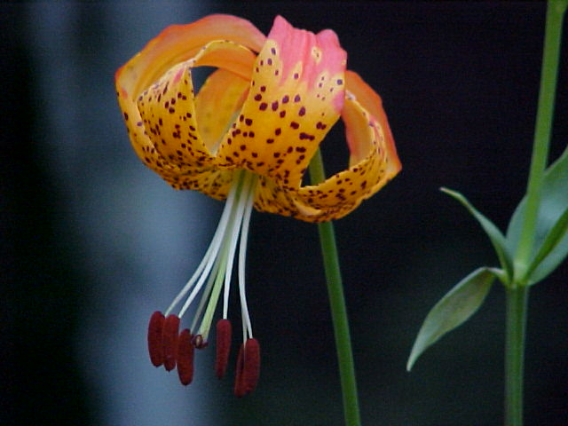 Lilium pardalinum This work is free and may be used by anyone for any purpose. If you wish to use this content, you do not need to request permission as long as you follow any licensing requirements mentioned on this page.